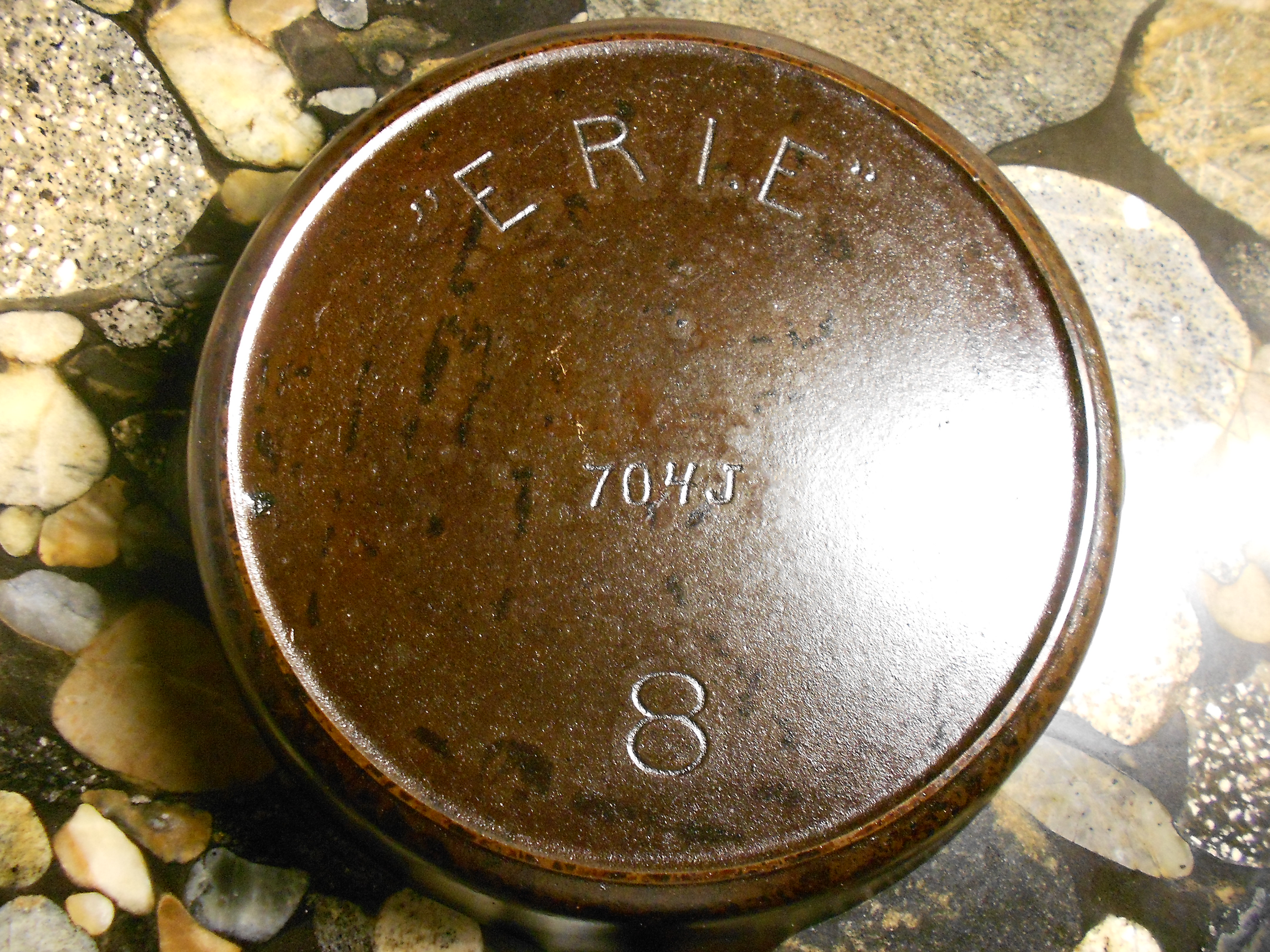 Griswold "Erie" cast iron skillet bearing the "Erie" logo, manufactured approximately 1905